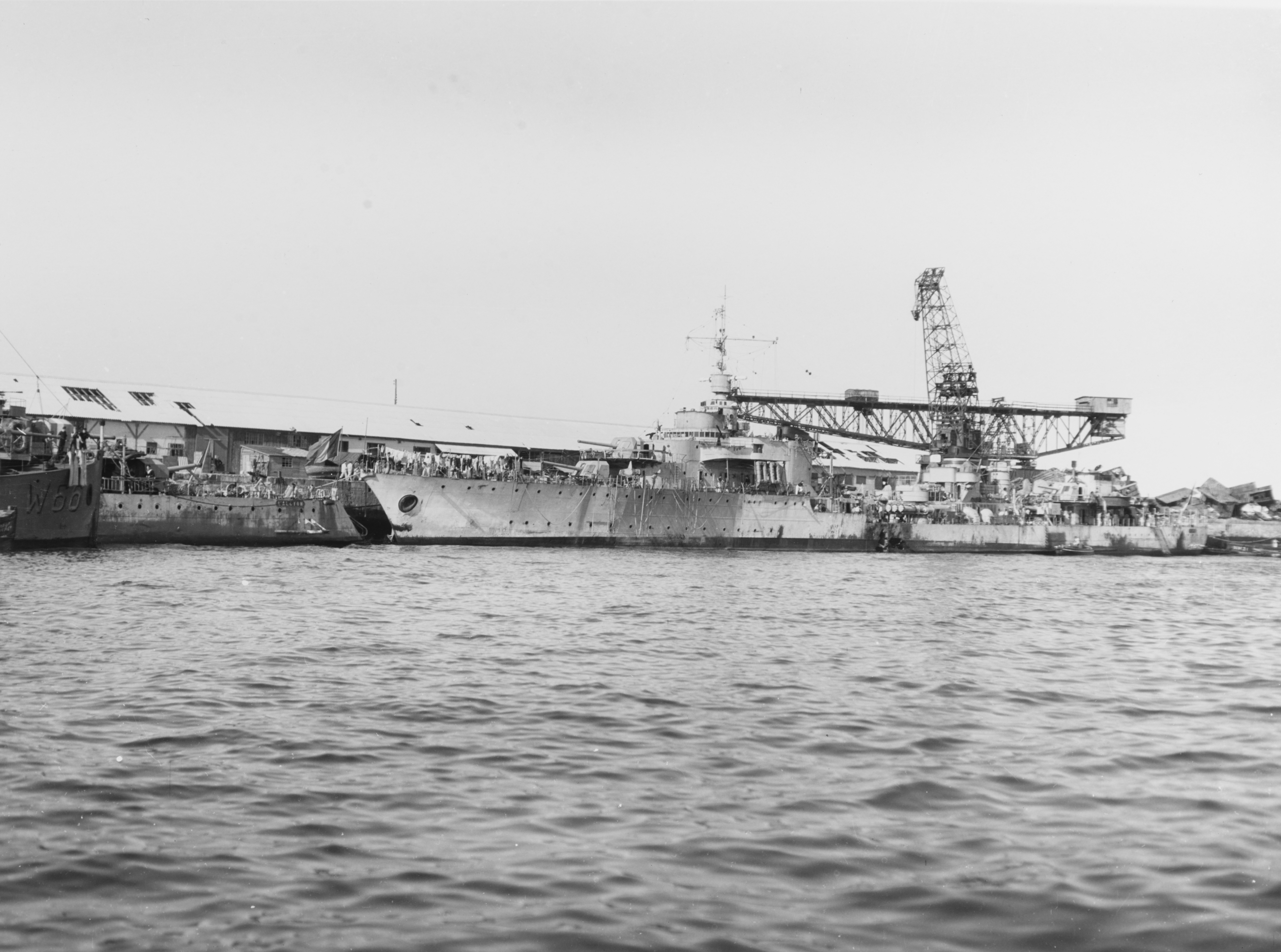 North African Invasion, November 1942: French warships at Casablanca, Morocco, 16 November 1942. The destroyer L'Alcyon's stern is at left, with the bow of trawler patrol vessel L'Algéroise (W66) outboard. In the center is the destroyer Le Malin. Both destroyers had been damaged on 8 November, during the Battle of Casablanca, and Le Malin has a large hole in her midships side. Extensive damage is also visible on shore, especially at right.